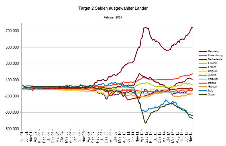 TARGET2 balances in the Eurosystem from January 2007 to February 2017 (monthly data in millions of euros)